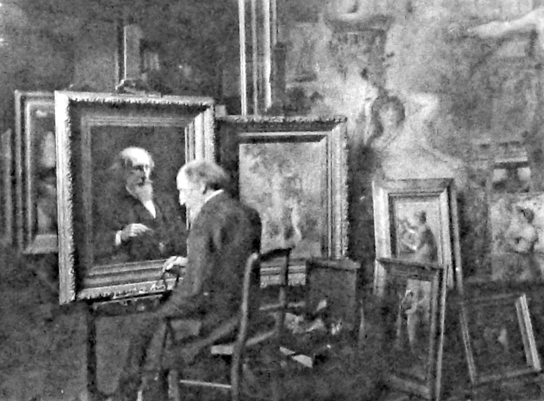 The Belgian painter Joseph Stallaert (1825-1903) in his atelier